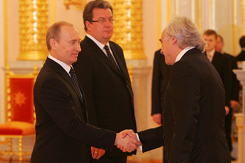 THE KREMLIN, MOSCOW. The Ambassador of the Kingdom of Spain, Juan Antonio March Pujol, presents his credentials to the President of Russia.